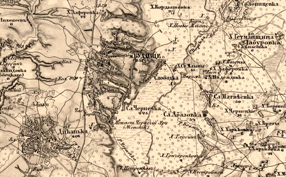 Village Velyki Budyscha on the map of the Russian Empire in 1878. Poltava region, Ukraine